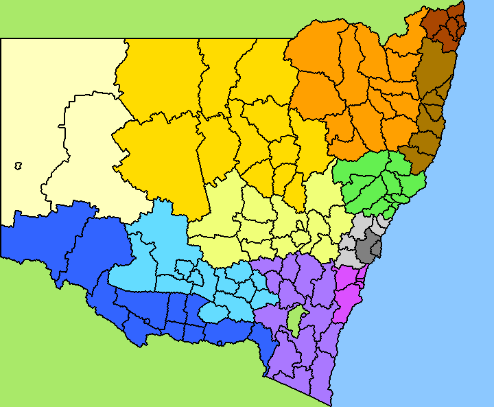 Map of LGAs in New South Wales/Australia, regions in different colours